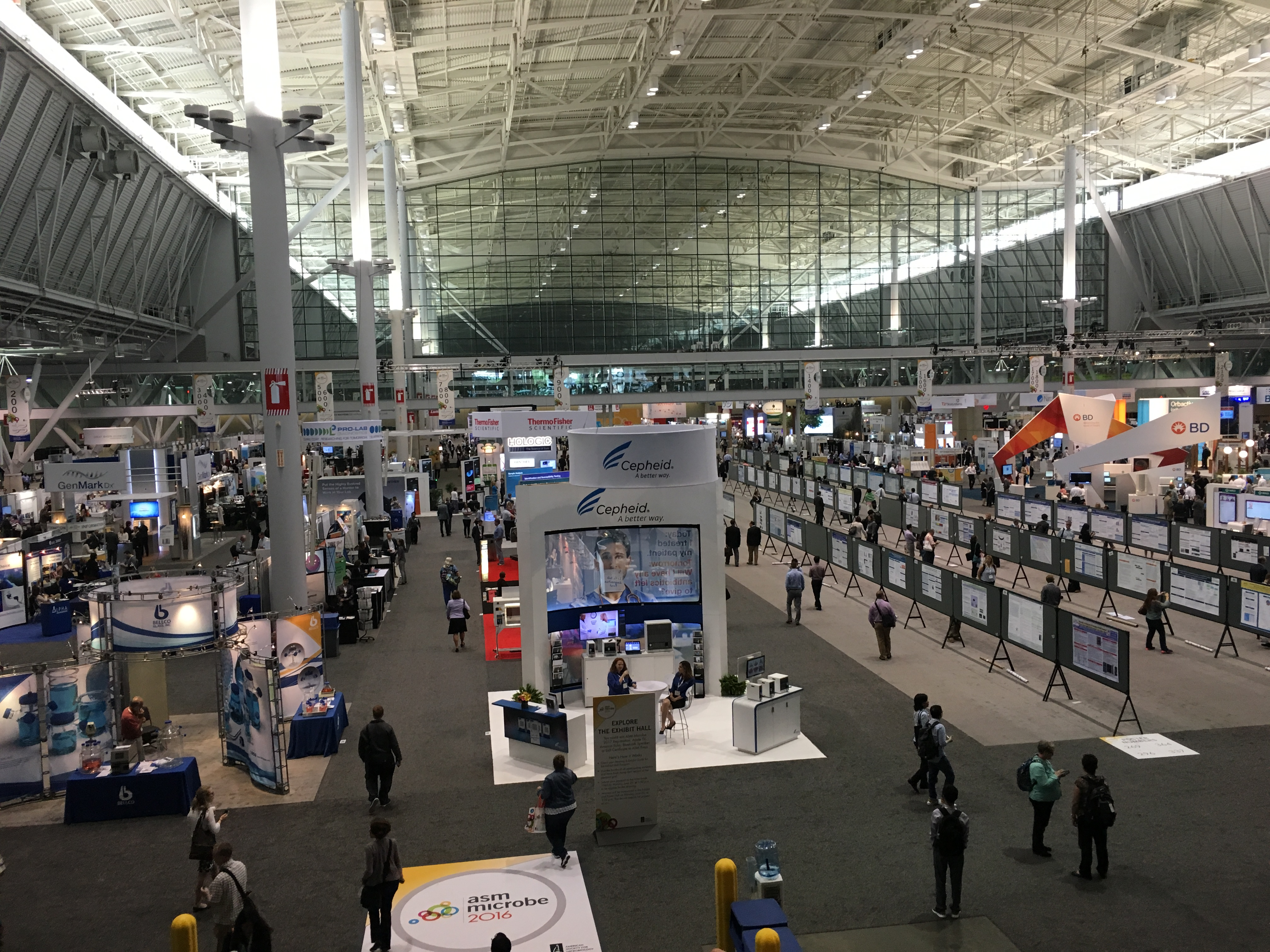 American Society for Microbiology "ASM Microbe 2016" trade show at the Boston Convention and Exhibition Center. View from down escalator.